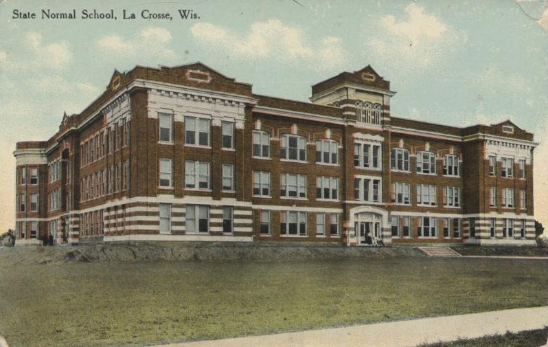 Postcard picture of main building (and the original building) at the State Normal School in La Crosse, Wisconsin. The school is now known as the University of Wisconsin-La Crosse and the building is now known as Maurice O. Graff Main Hall. According to the English Wikipedia article "Main Hall/La Crosse State Normal School", the structure was built in 1909, a fact referenced to a page on the university's website, which states "Graff Main Hall (1909), the original building on campus".